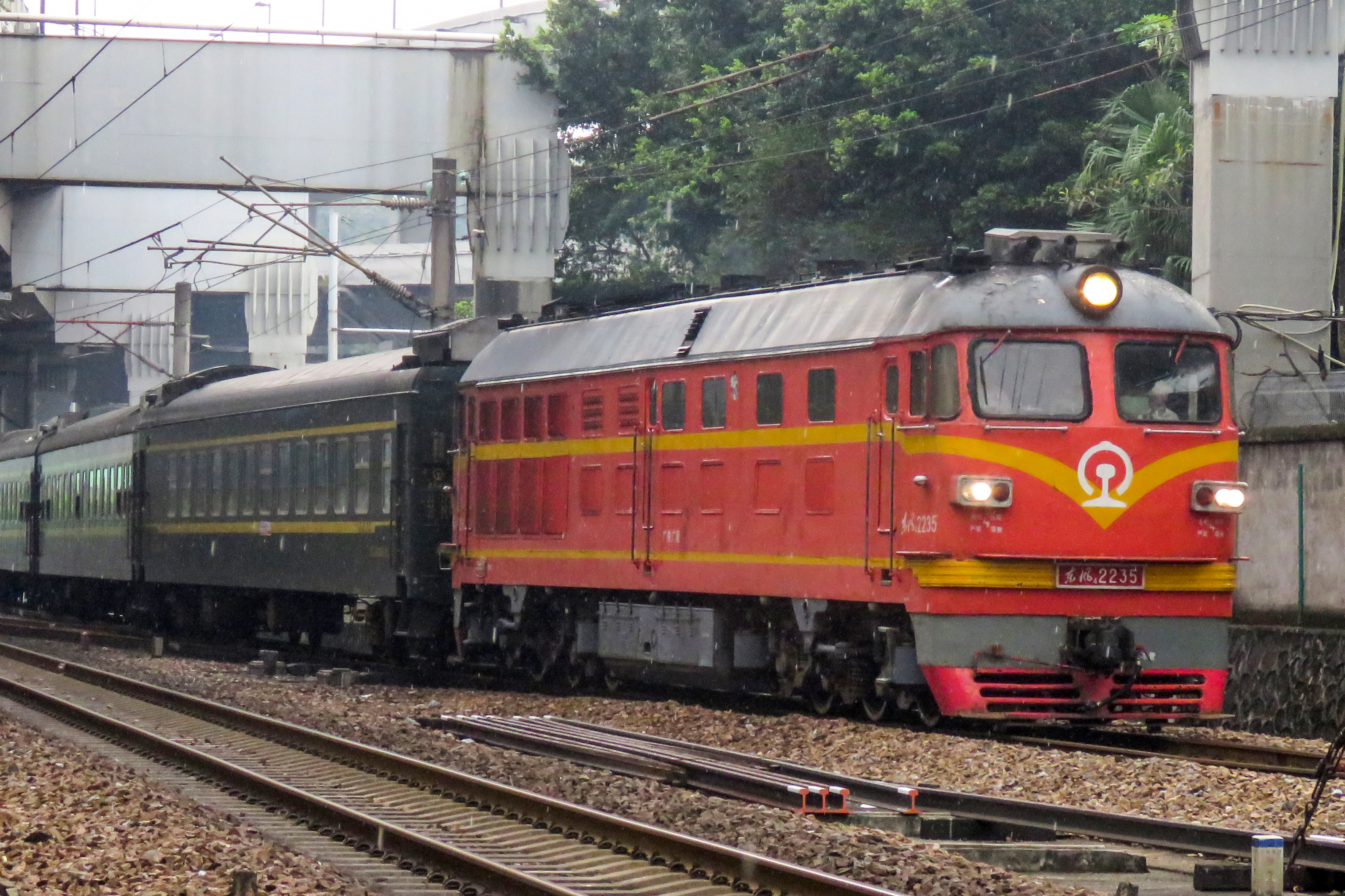 K586 from Shenzhen West to Chengdu. Nice DF4B arriving in rain.